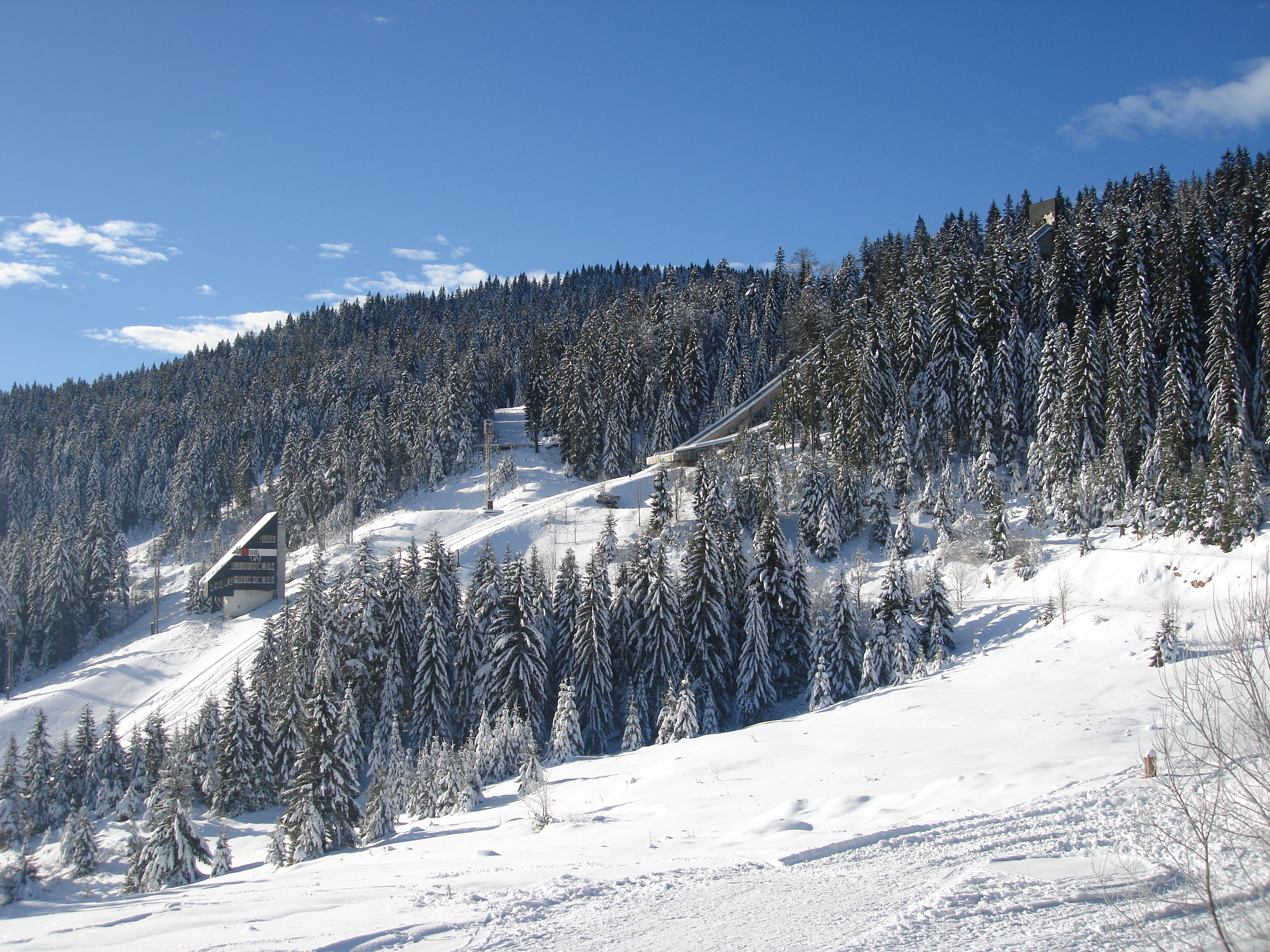 Mont Igman / Mount Igman, with the Igman Olympic Jumps that were used during the Winter Olympics in 1984no original description